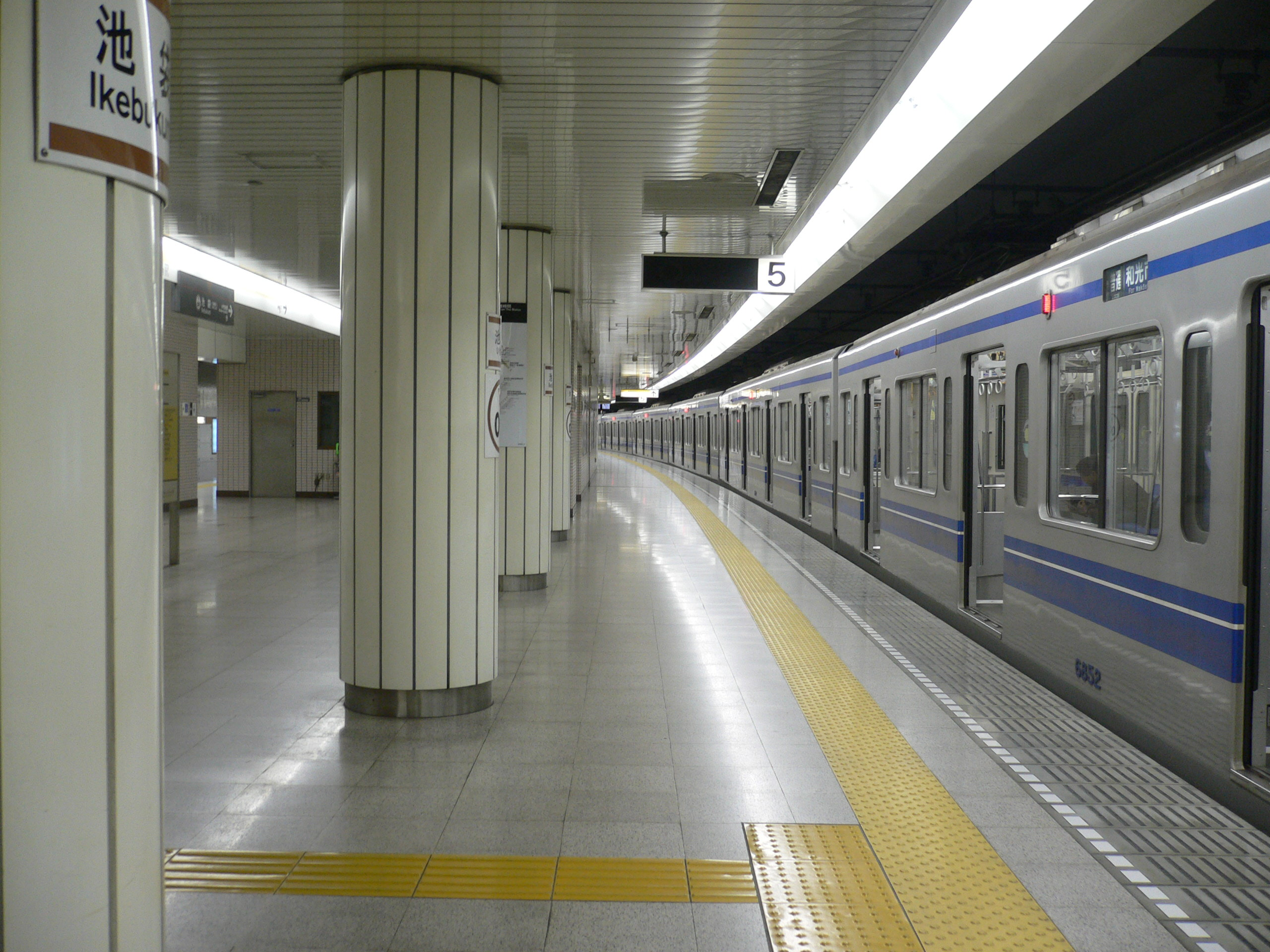 The platform at Ikebukuro Shinsen Station on the Tokyo Metro Yurakucho New Line before it became part of the Tokyo Metro Fukutoshin Line